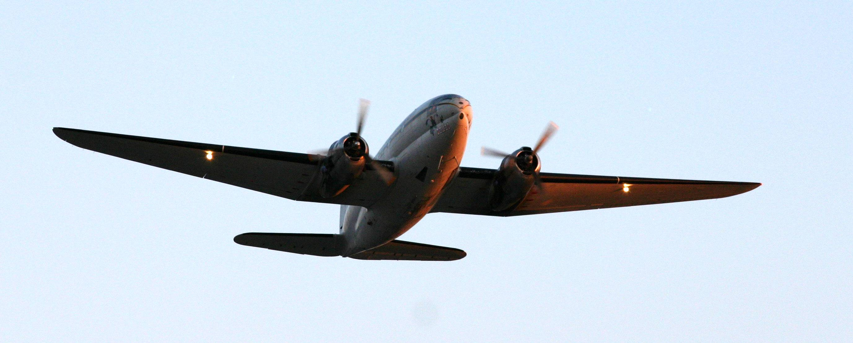 Everts Air C-46 taking off; "End of April 2008 in Anchorage, Alaska."